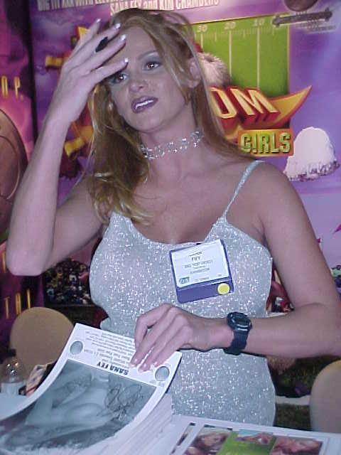 Sana Fey at IA2000 (Internext Expo, part of AVN Expo), Jan 7 2000